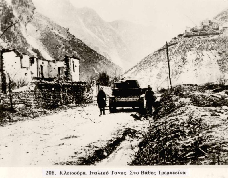 After the capture of Kleisoura Pass, Greco-Italian War, Battle of Greece, 10/01/1941